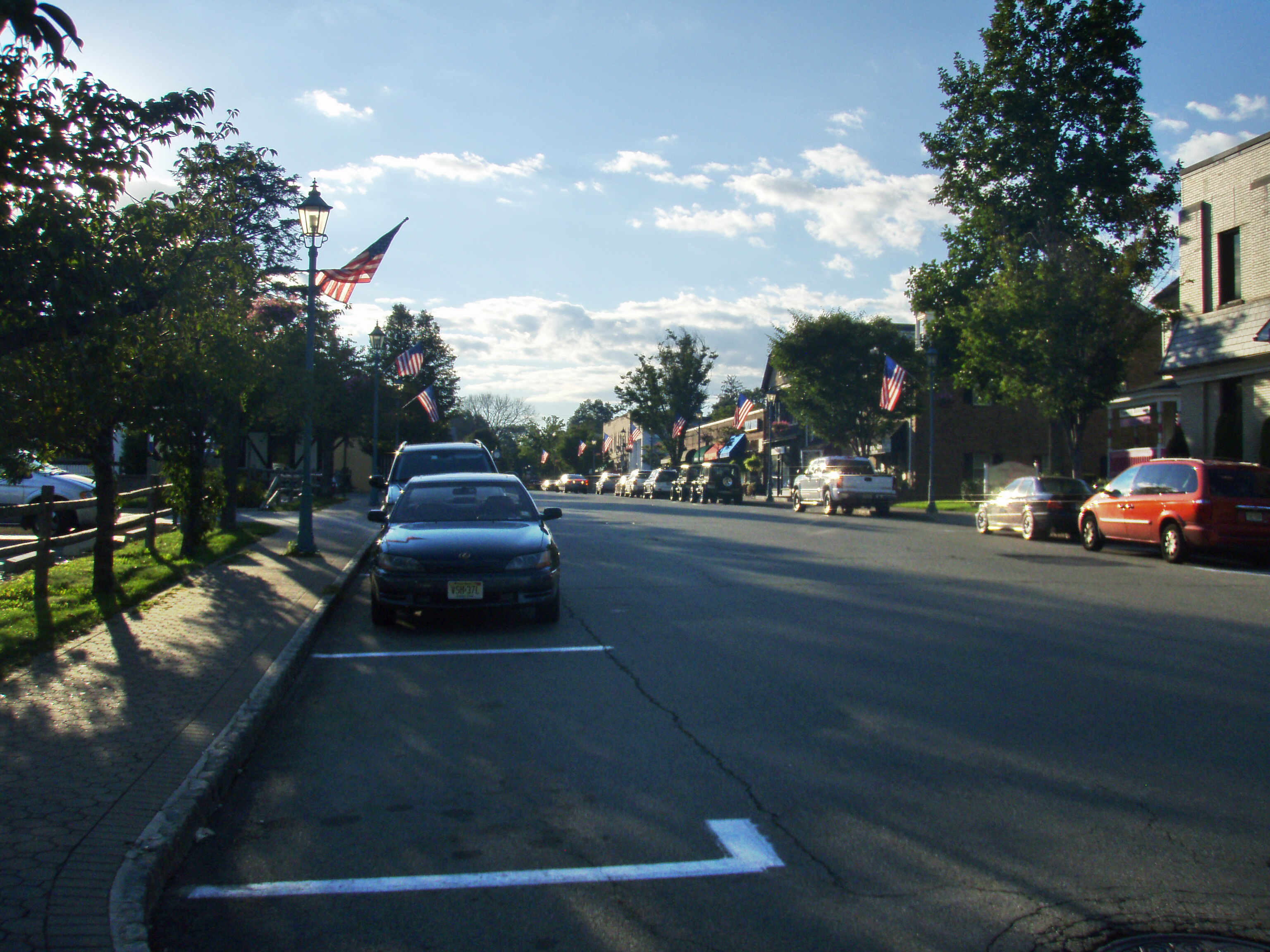 Downtown at Allendale, New Jersey